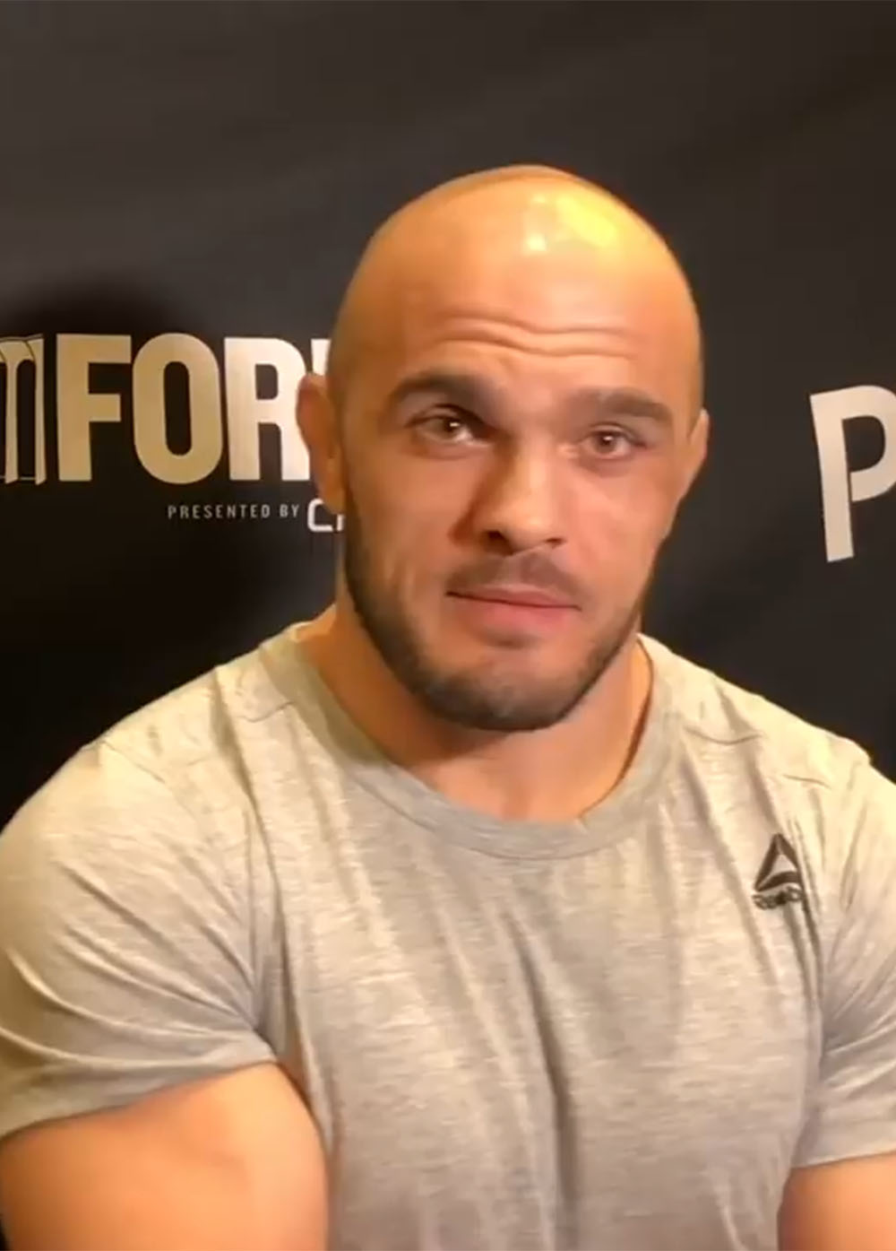 Ilir Latifi at UFC 232